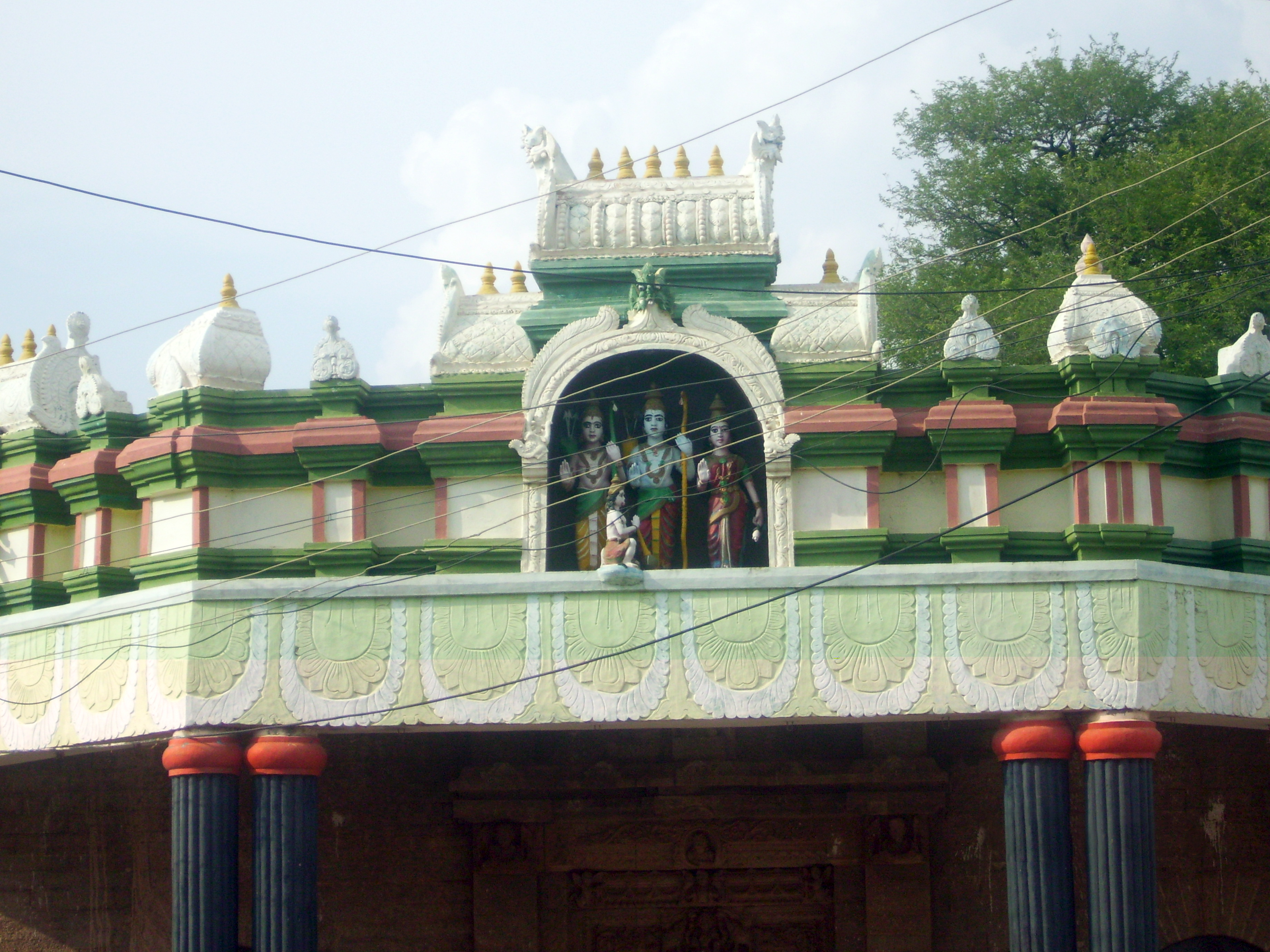 Rama Krishna Reddy Sangyam